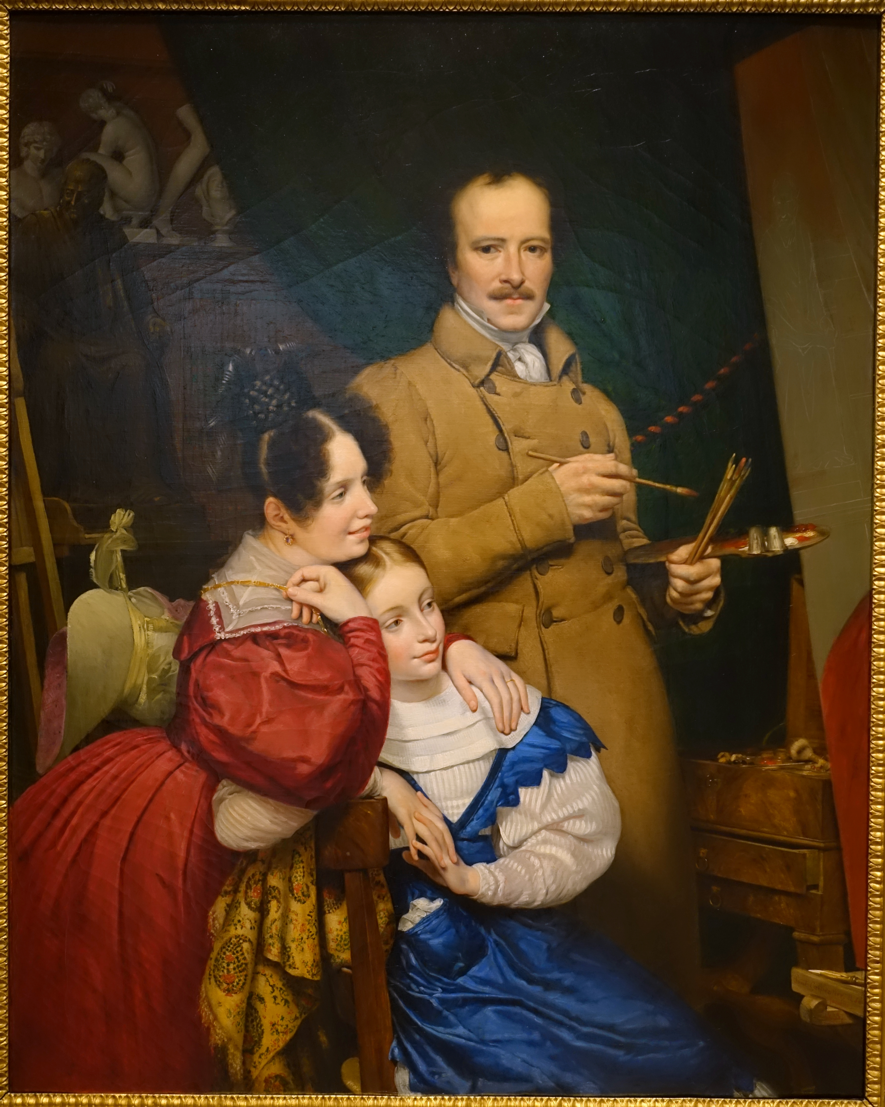 Exhibit in the Dallas Museum of Art, Dallas, Texas, USA.